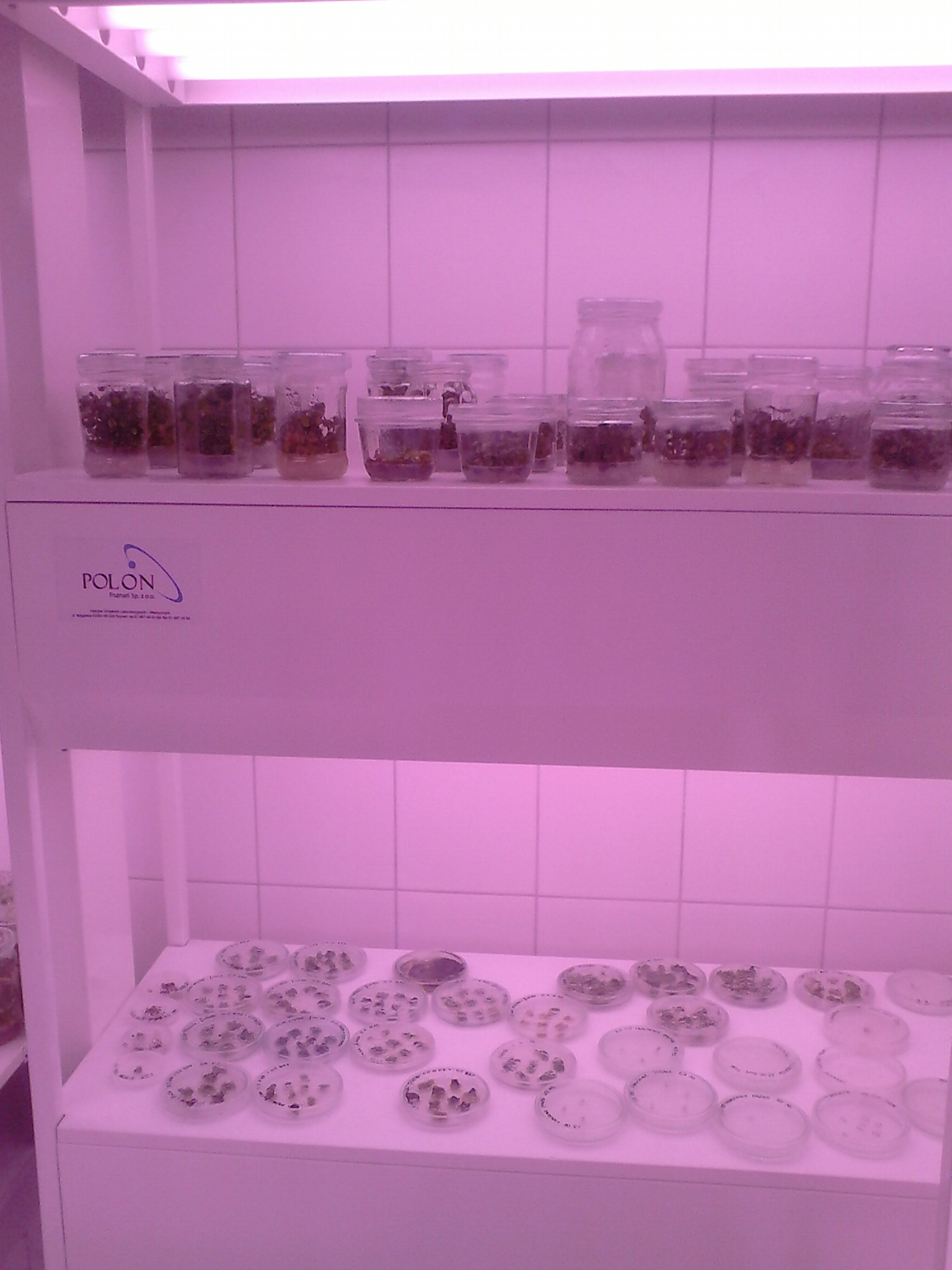 In vitro preparations in Department of Plant Cytology and Embryology of Jagiellonian University. Original light (white balance) - bulbs suitable for photosynthesis